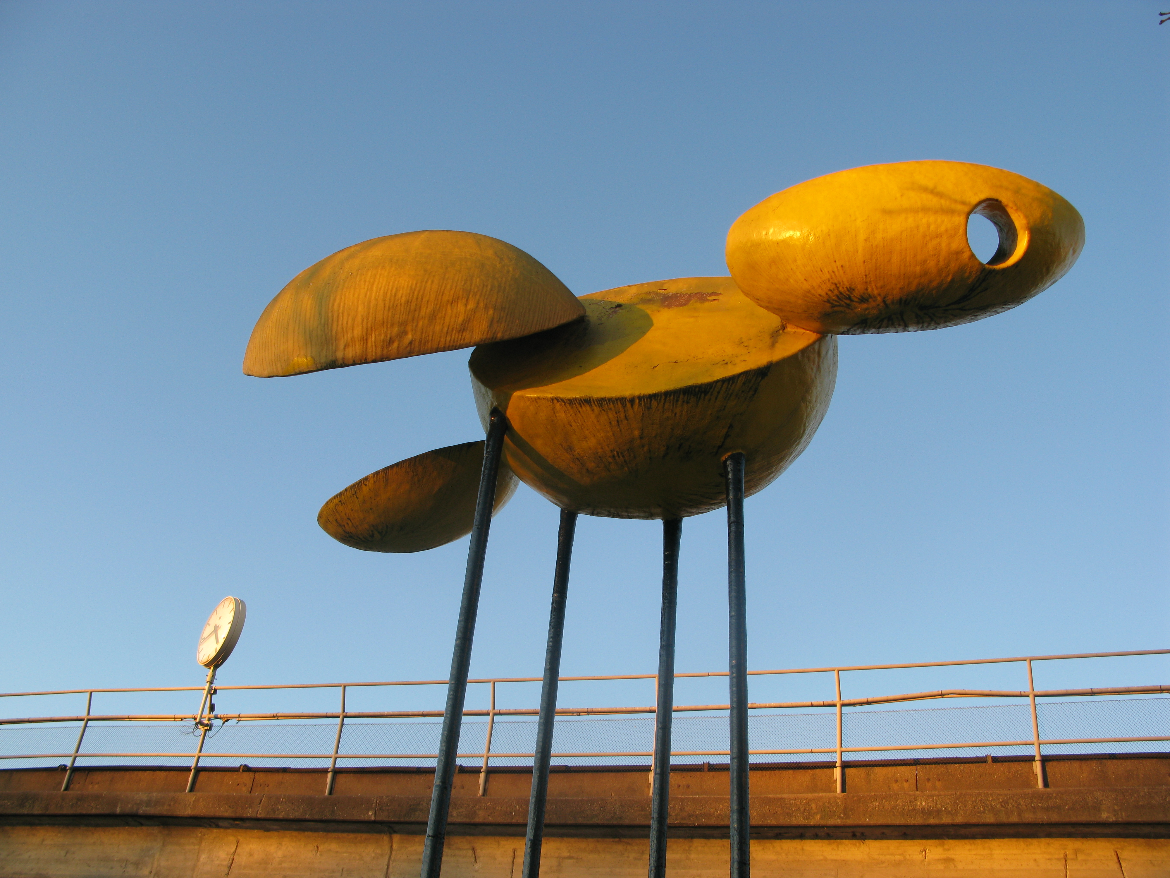 The sculpture "Bird with eggs" by Berndt Helleberg